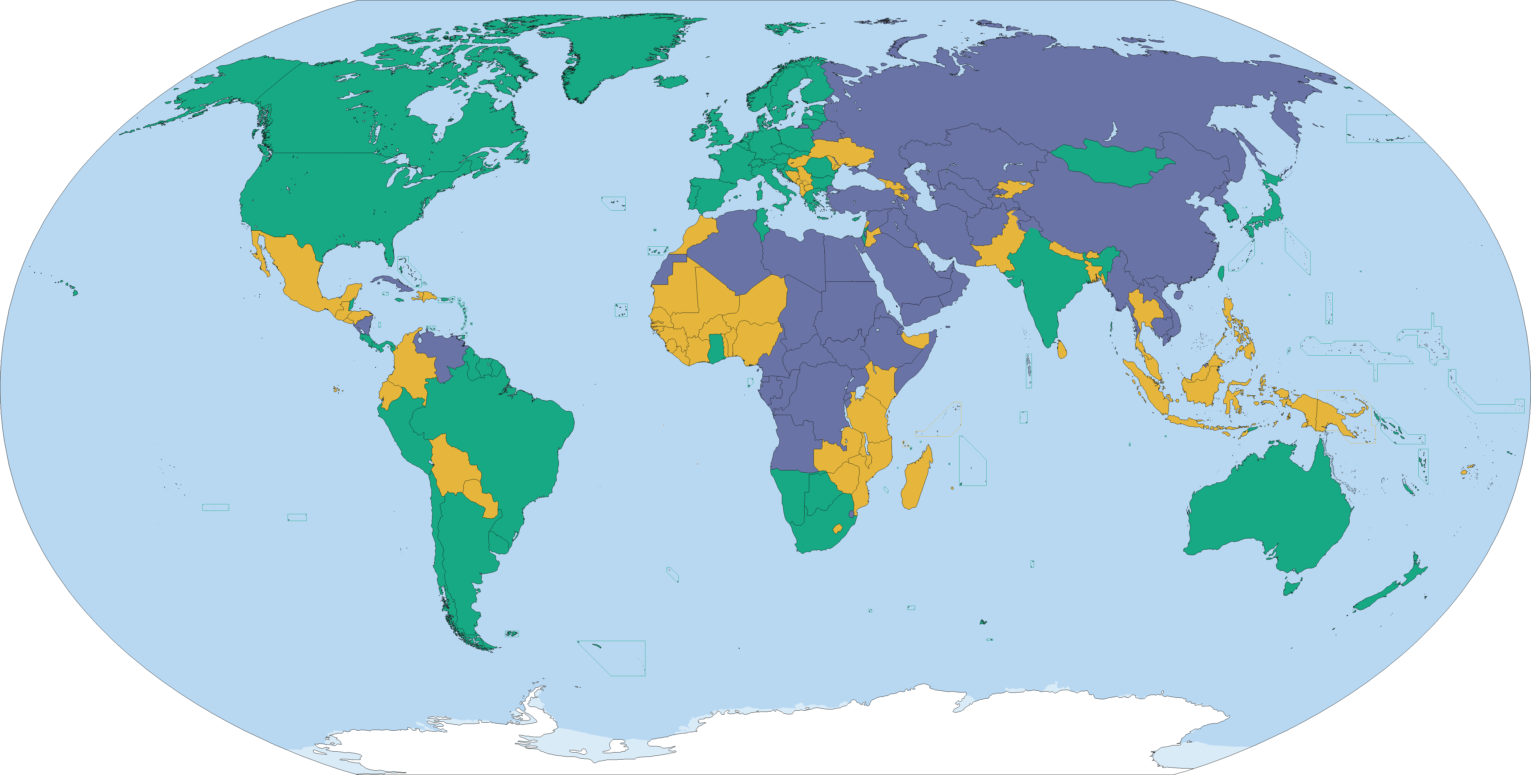 Country ratings from Freedom House’s Freedom in the World 2020 survey, concerning the state of world freedom in 2019